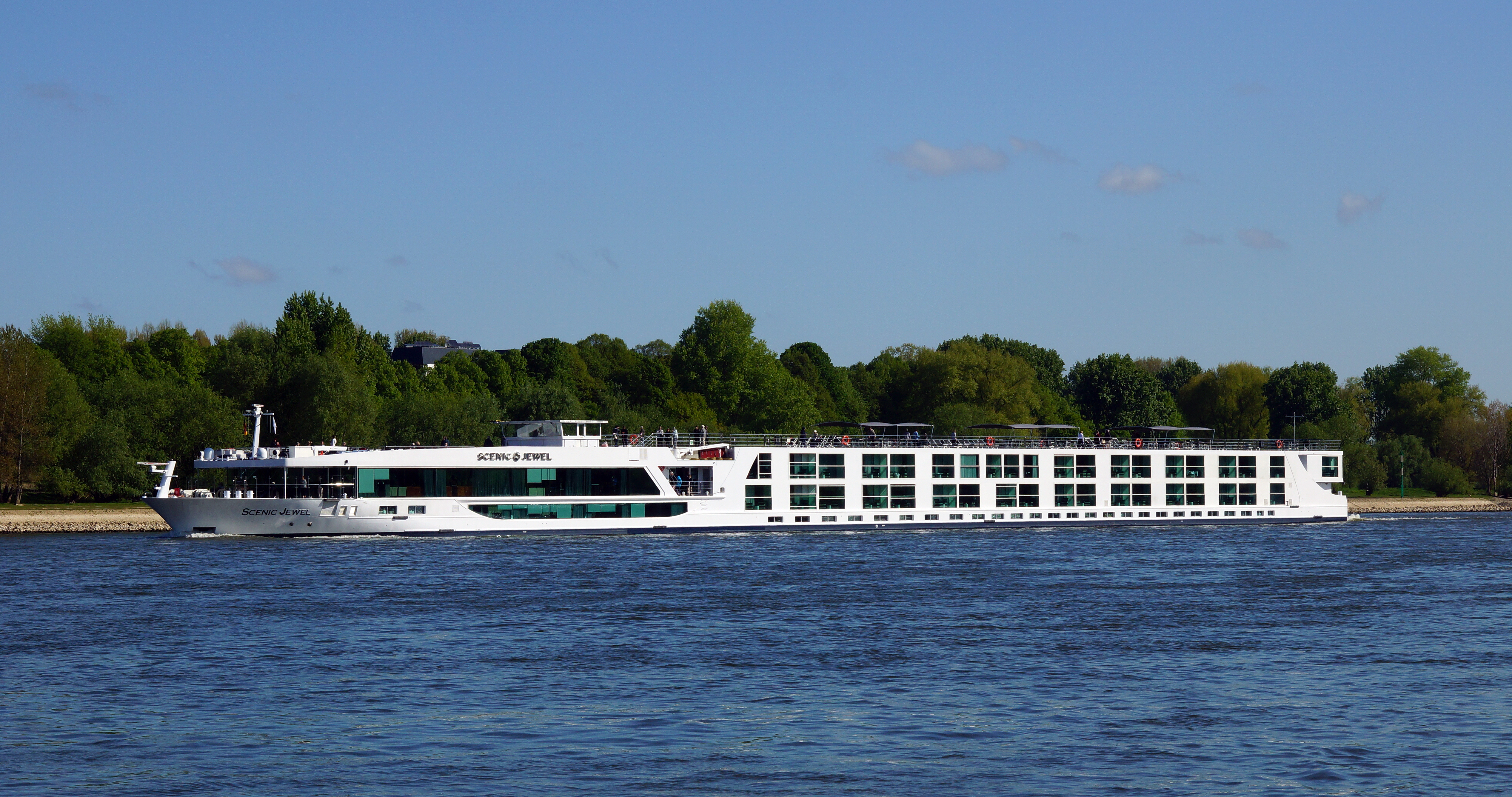 River cruise ship Scenic Jewel in Cologne.